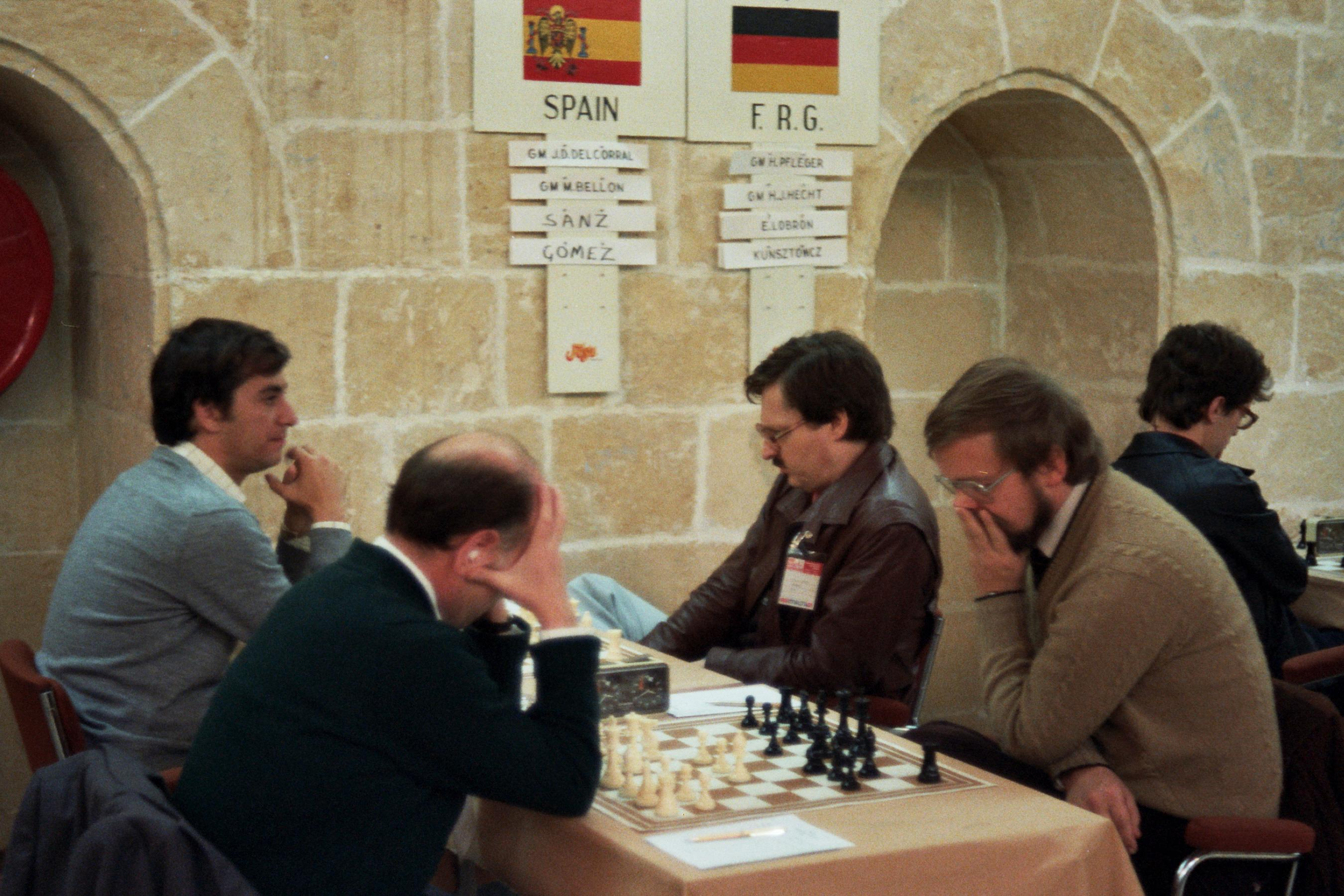 German men (Hecht, Pfleger), Chess Olympiad 1980 in Valetta on Malta, Photographer Gerhard Hund.